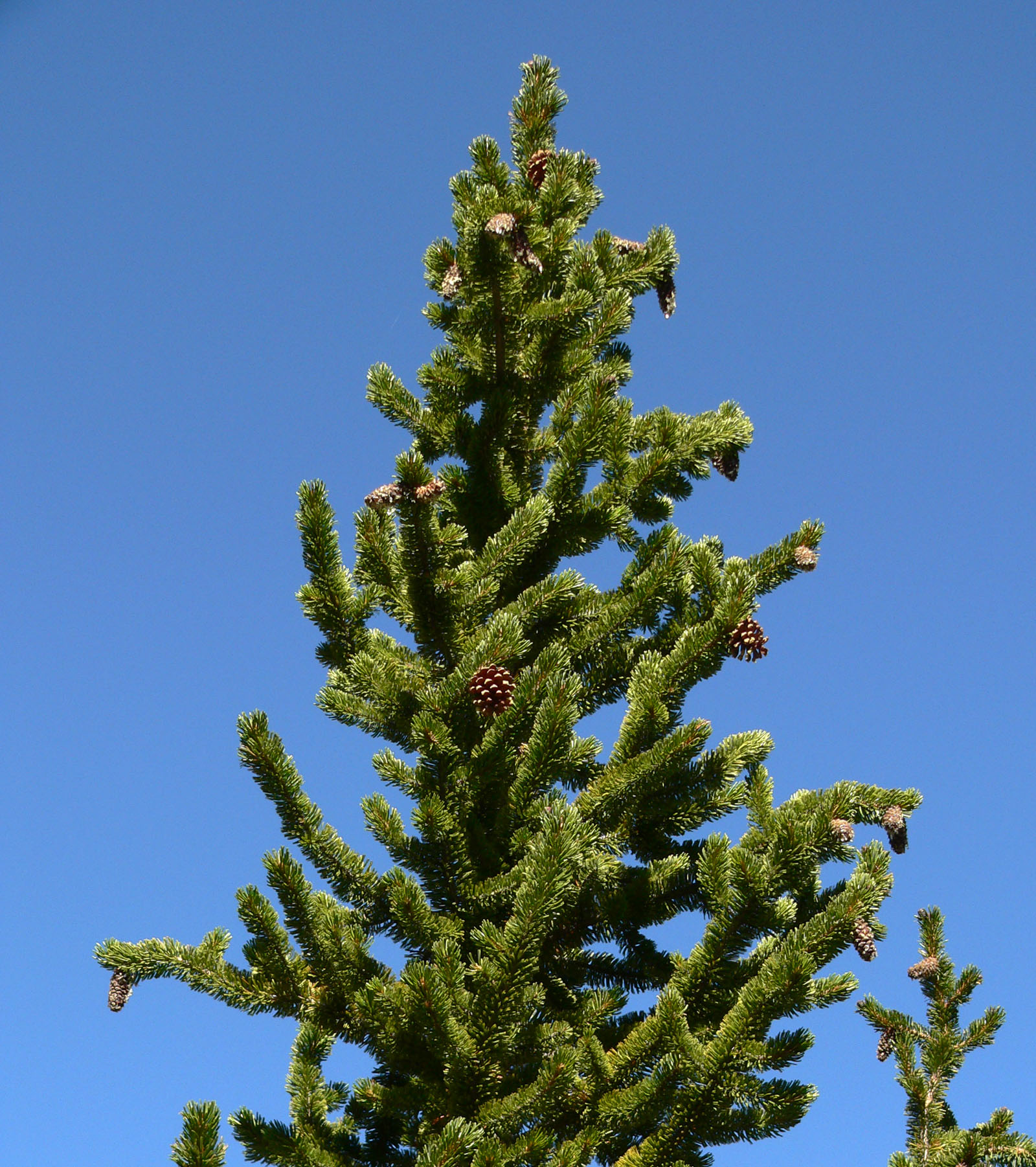 Pinus longaeva on Bristlecone Trail, Lee Canyon, Spring Mountains, southern Nevada (elev. about 2900 m)